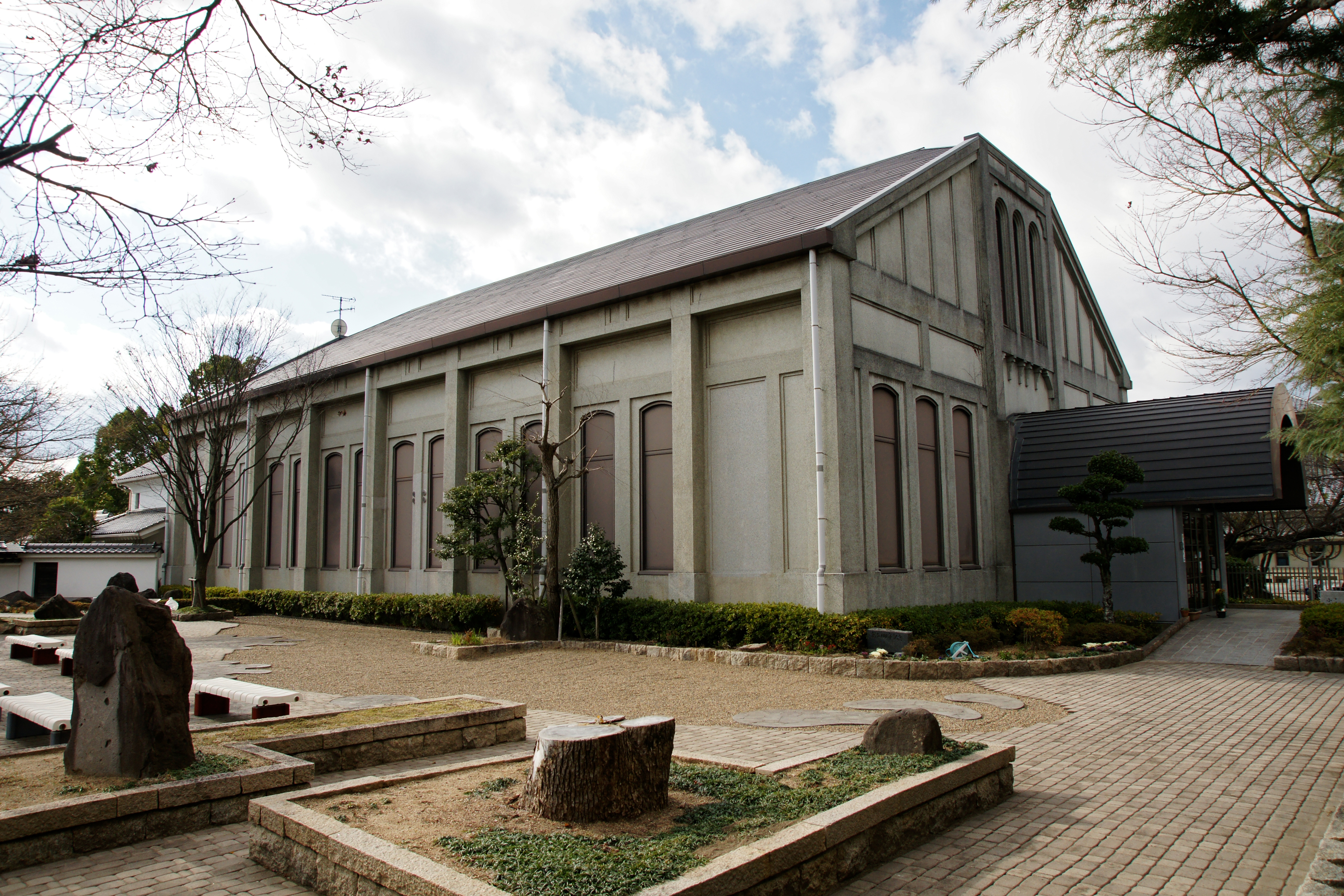 City Museum Ono (Kokokan) in Ono, Hyogo prefecture, Japan.